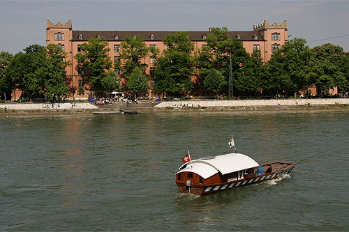 The Rhine ferry "Vogel Gryff" with the Kaserne in background